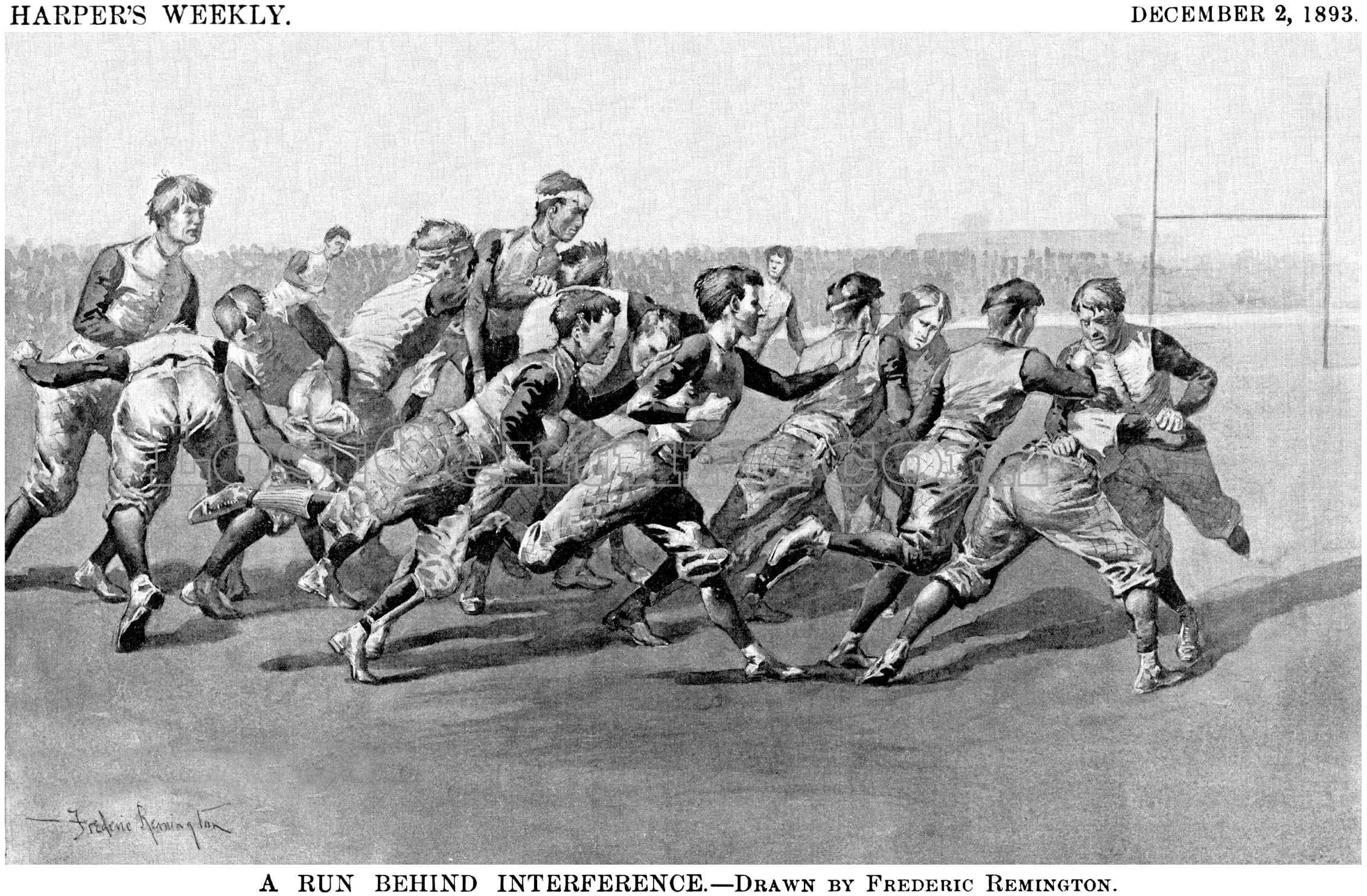 Behind Interference, an American football illustration.